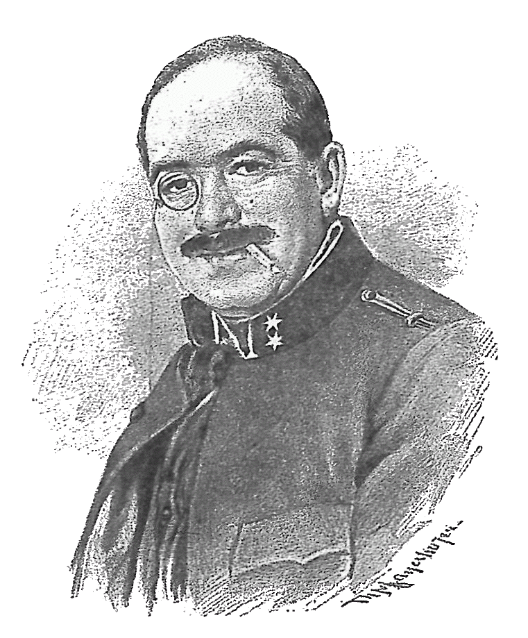 Alexander Roda Roda (birth name: Sándor Friedrich Rosenfeld; 1872–1945), Austrian writer